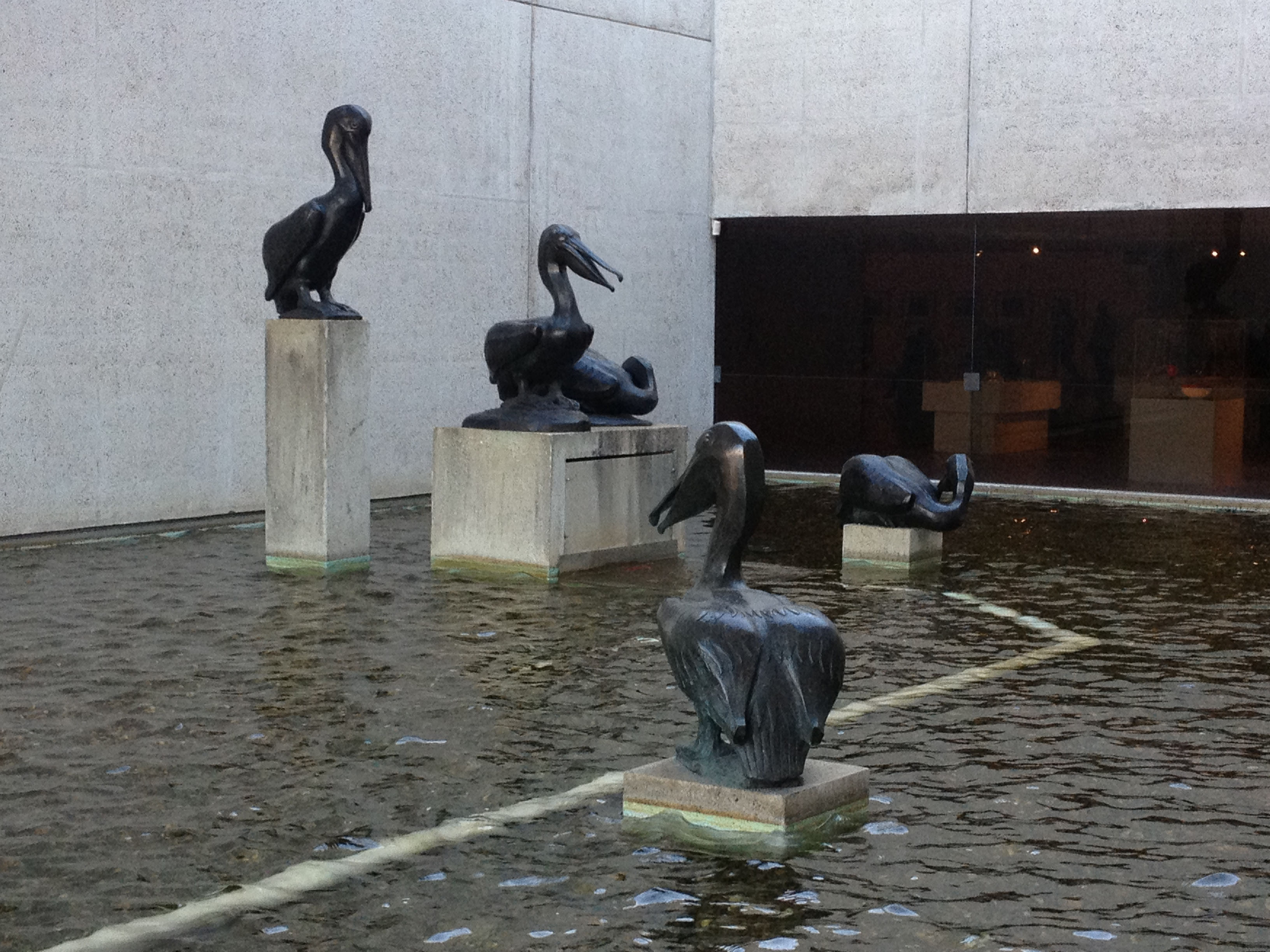 Pelicans sculpture, Queensland Art Gallery, Brisbane